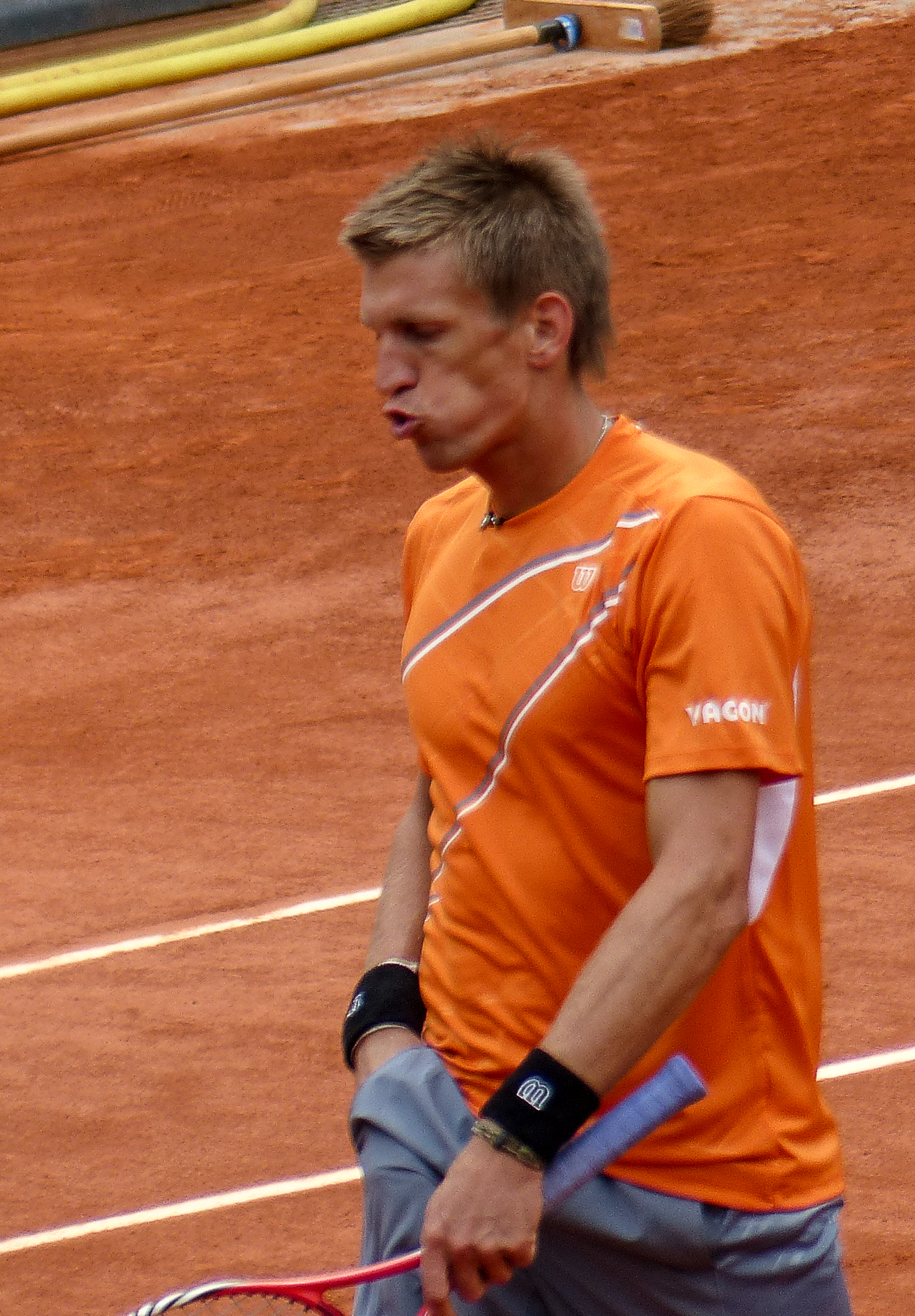 2ème tour Roland Garros 2013 : Jo-Wilfried Tsonga (FRA) def. Jarkko Nieminen (FIN)